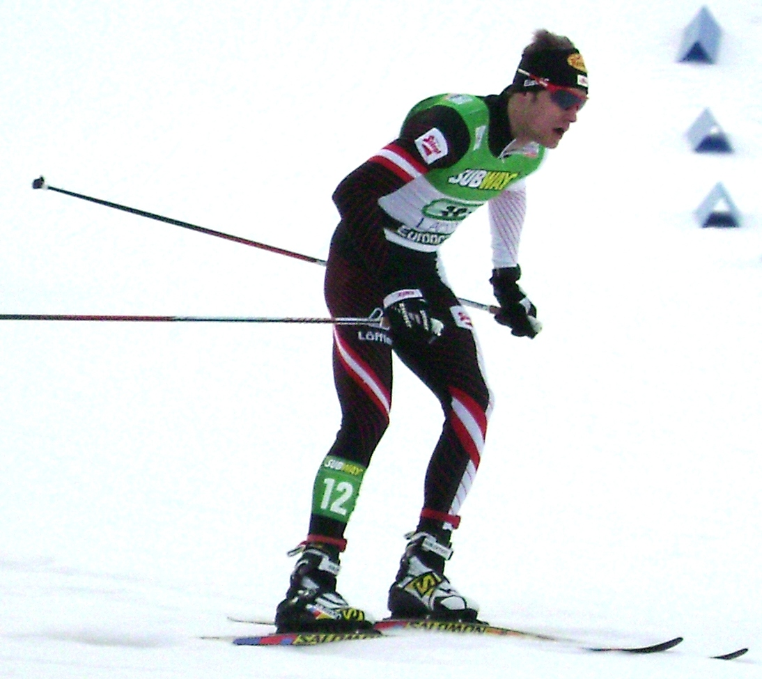 Austrian nordic combined skier Marco Pichlmayer at Lahti Ski Games 2014.